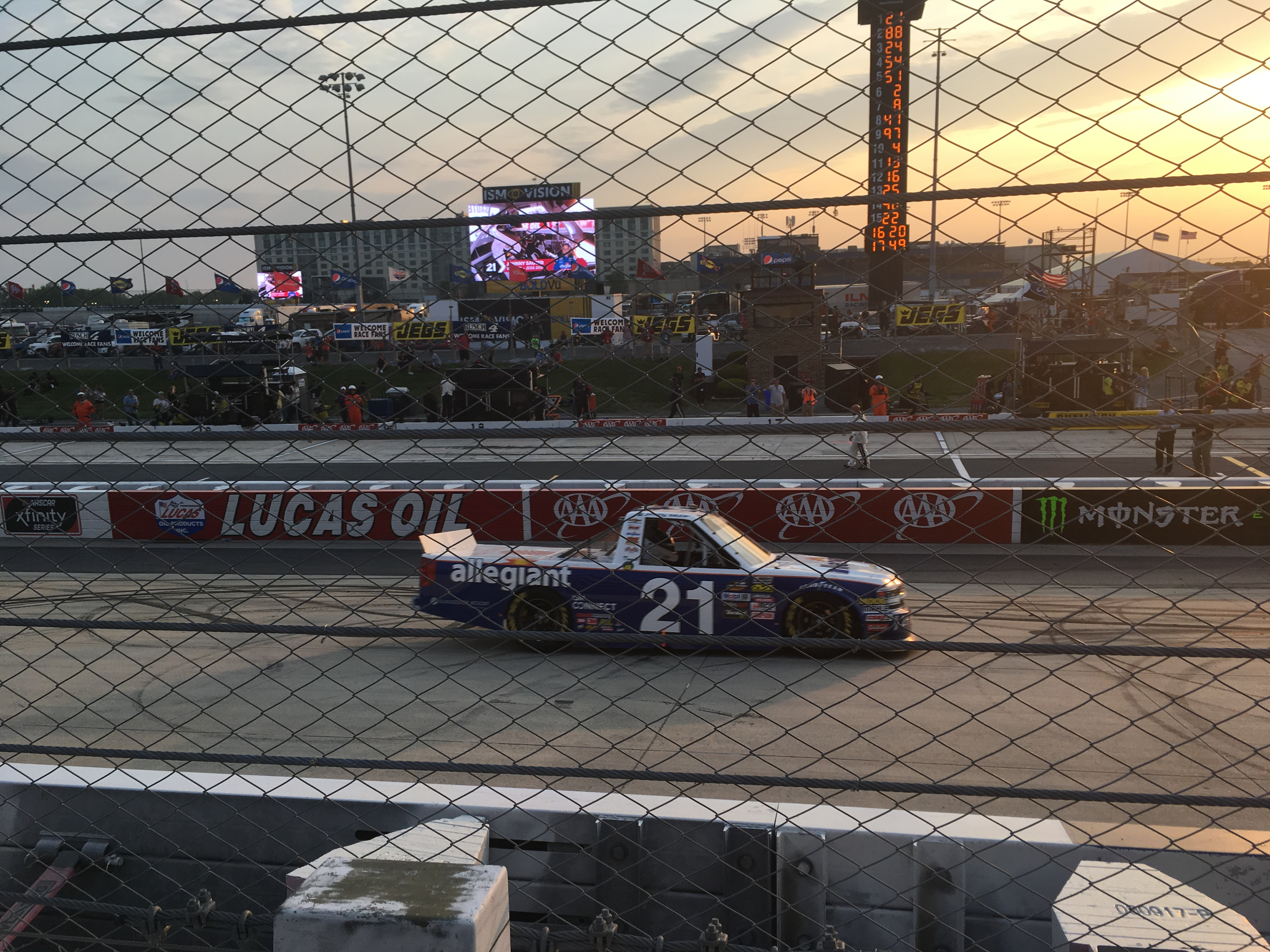 Johnny Sauter (#21) drives by on the frontstretch after winning the 2018 JEGS 200 at Dover International Speedway